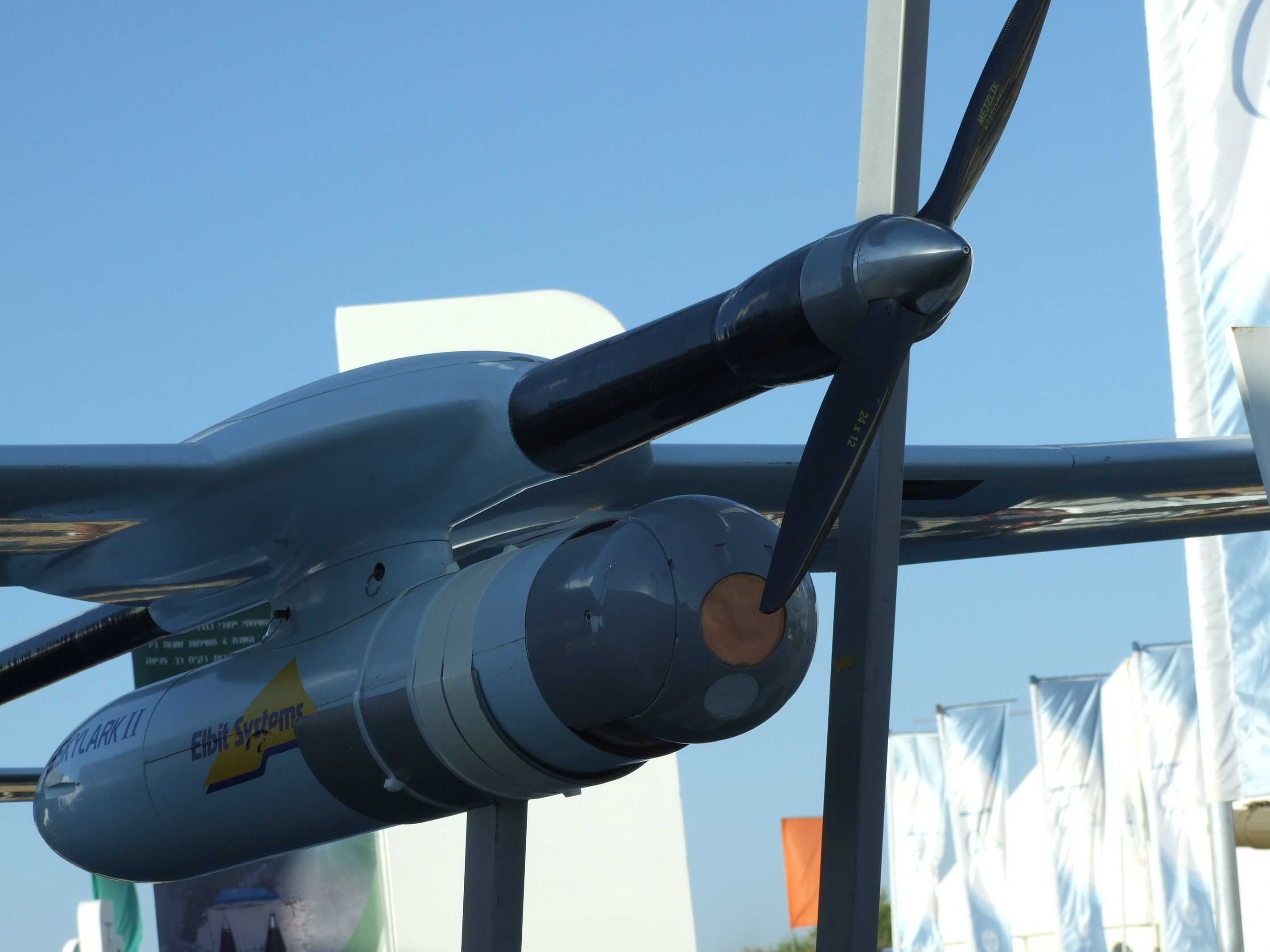 Elbit Skylark 2 UAV close-up